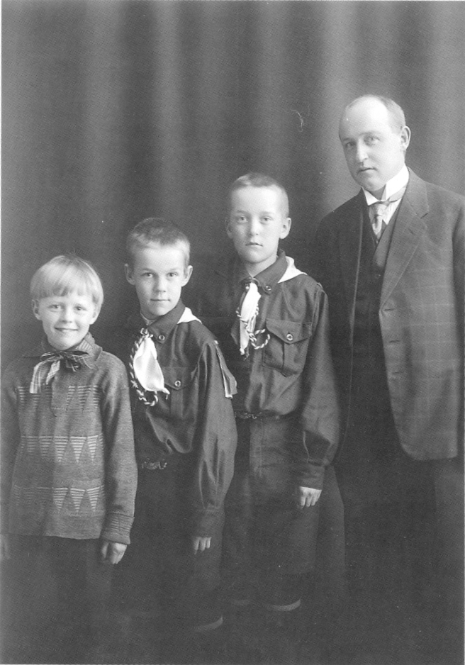 Photograph of the Finnish historian Einar W. Juva (1892–1966) with his sons Klaus, Mikko and Juhani.